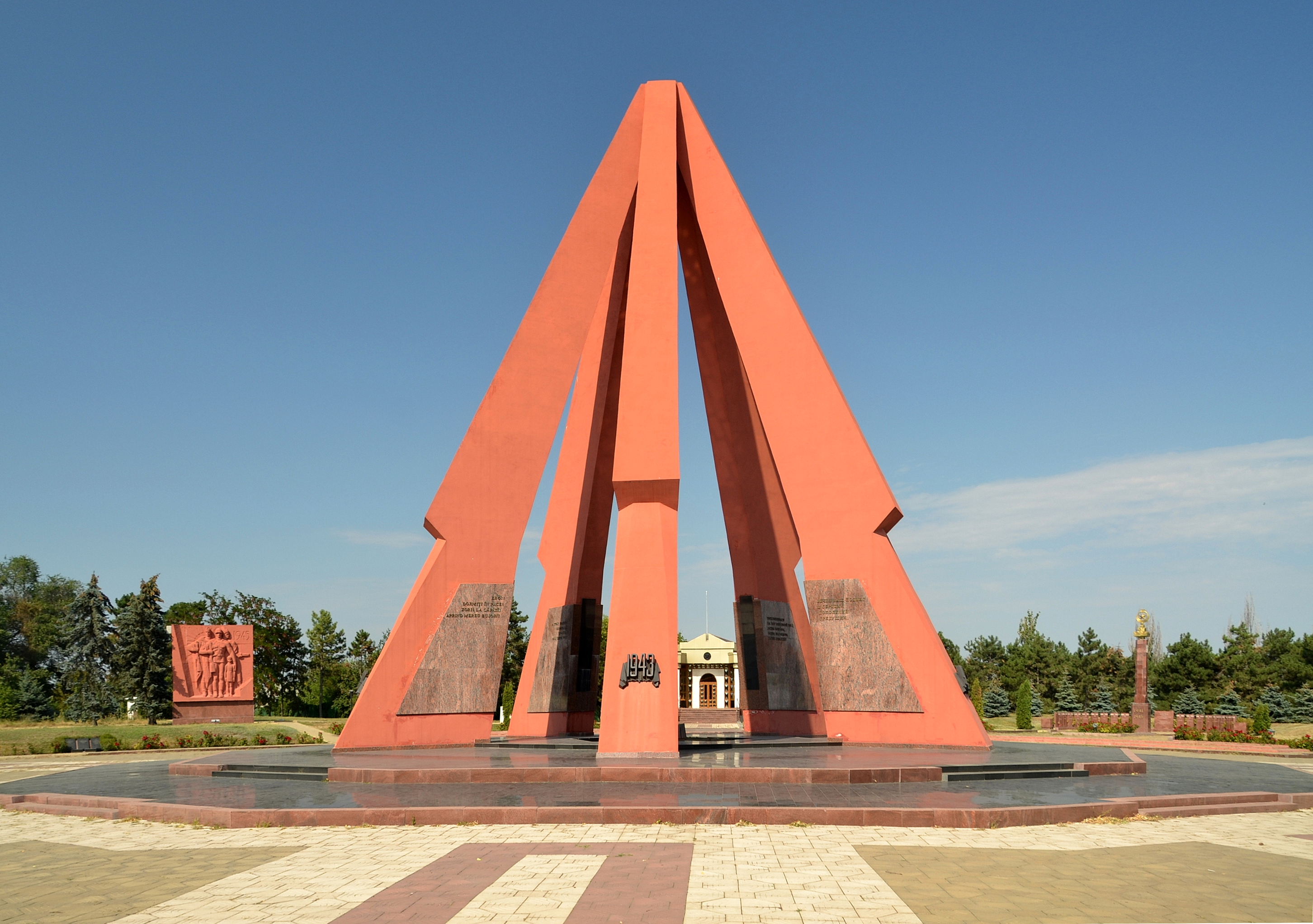 Chișinău, Moldova - Memorial complex Eternitate